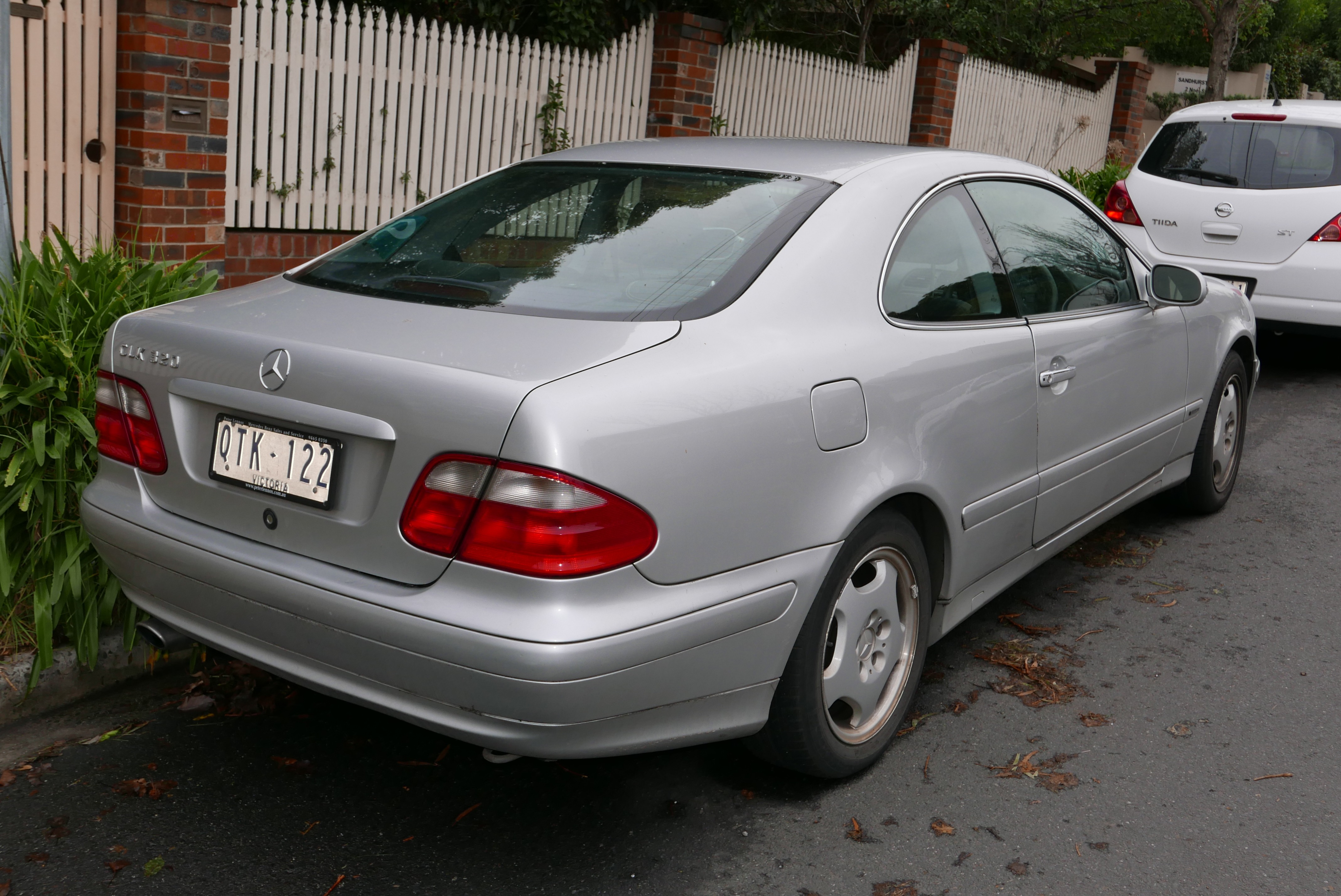 2000 Mercedes-Benz CLK 320 (C 208) Elegance coupe. Photographed in Ivanhoe, Victoria, Australia. Vehicle registration enquiry resultsJurisdictionVictoriaRegistrationQTK122Chassis codeWDB2083652F167754Engine code11294030798604Compliance date2000-09Year of manufacture2000